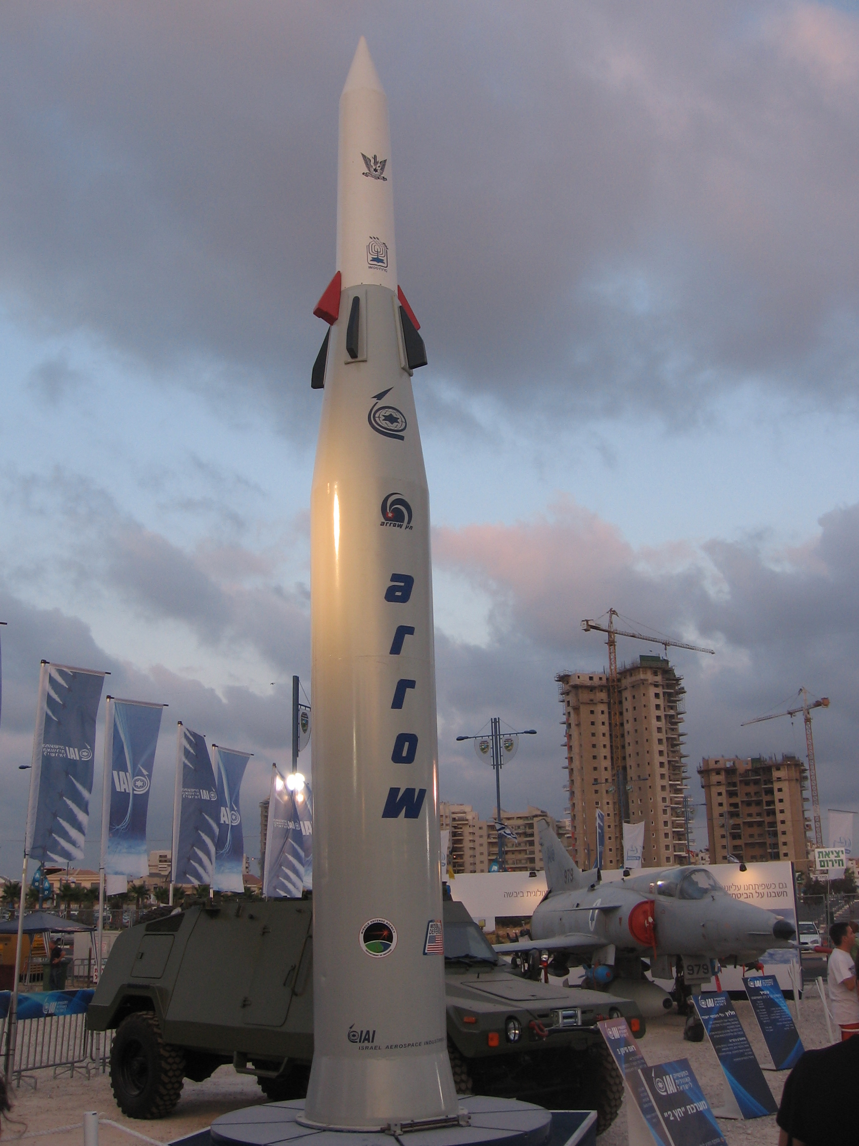 A IAI Arrow missile at an exhibition.